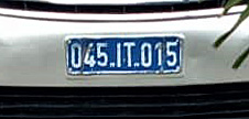 This is an image with the theme "Africa on the Move or Transport" from: Democratic Republic of the Congo